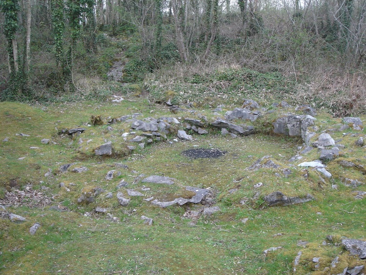 Foundations of a round house near the middle-rampart cashel in Mooghaun hill fort County Clare, Ireland